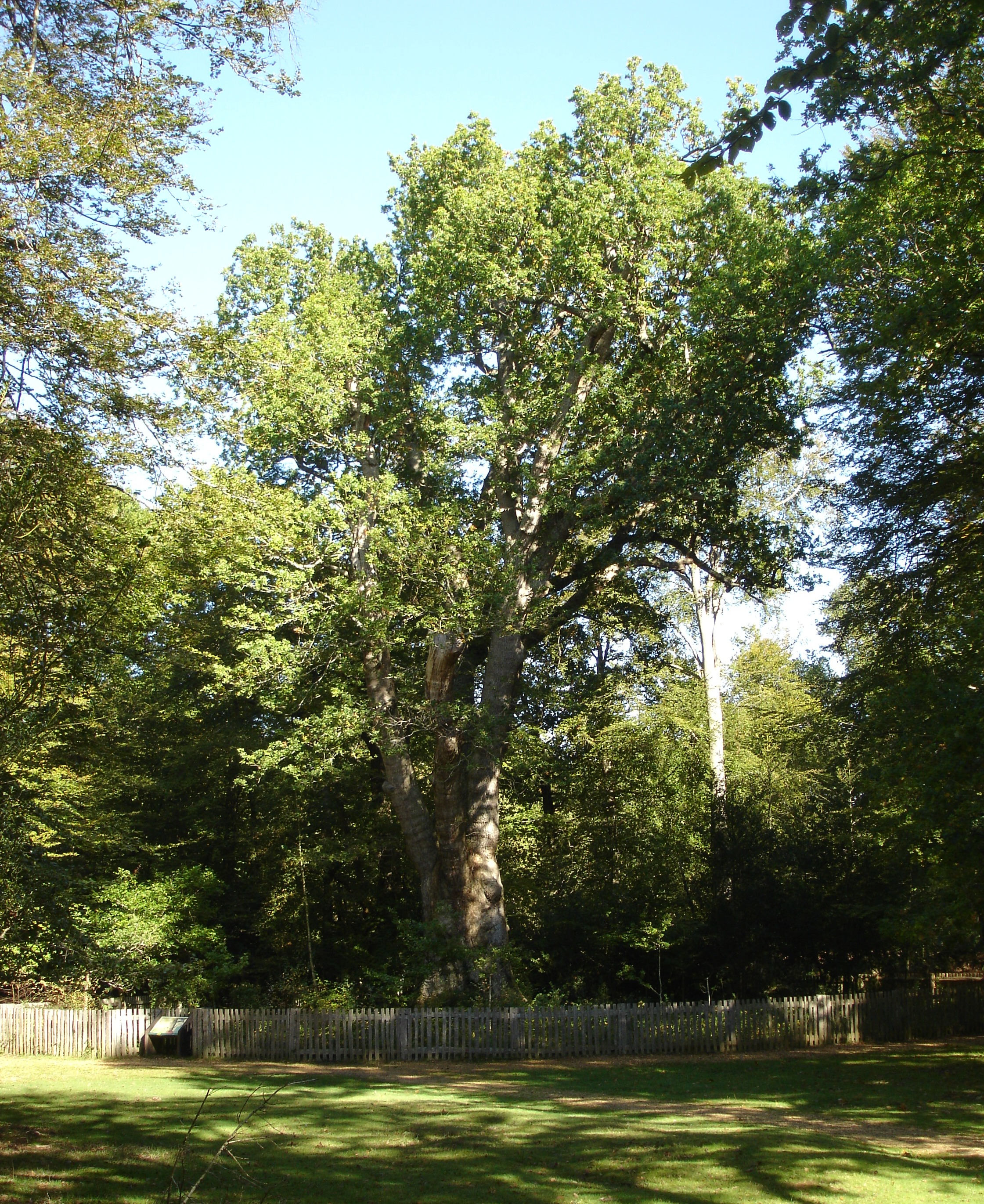 The Knightwood Oak in early October 2007. Taken by Malcolm Gould on October 5, 2007.